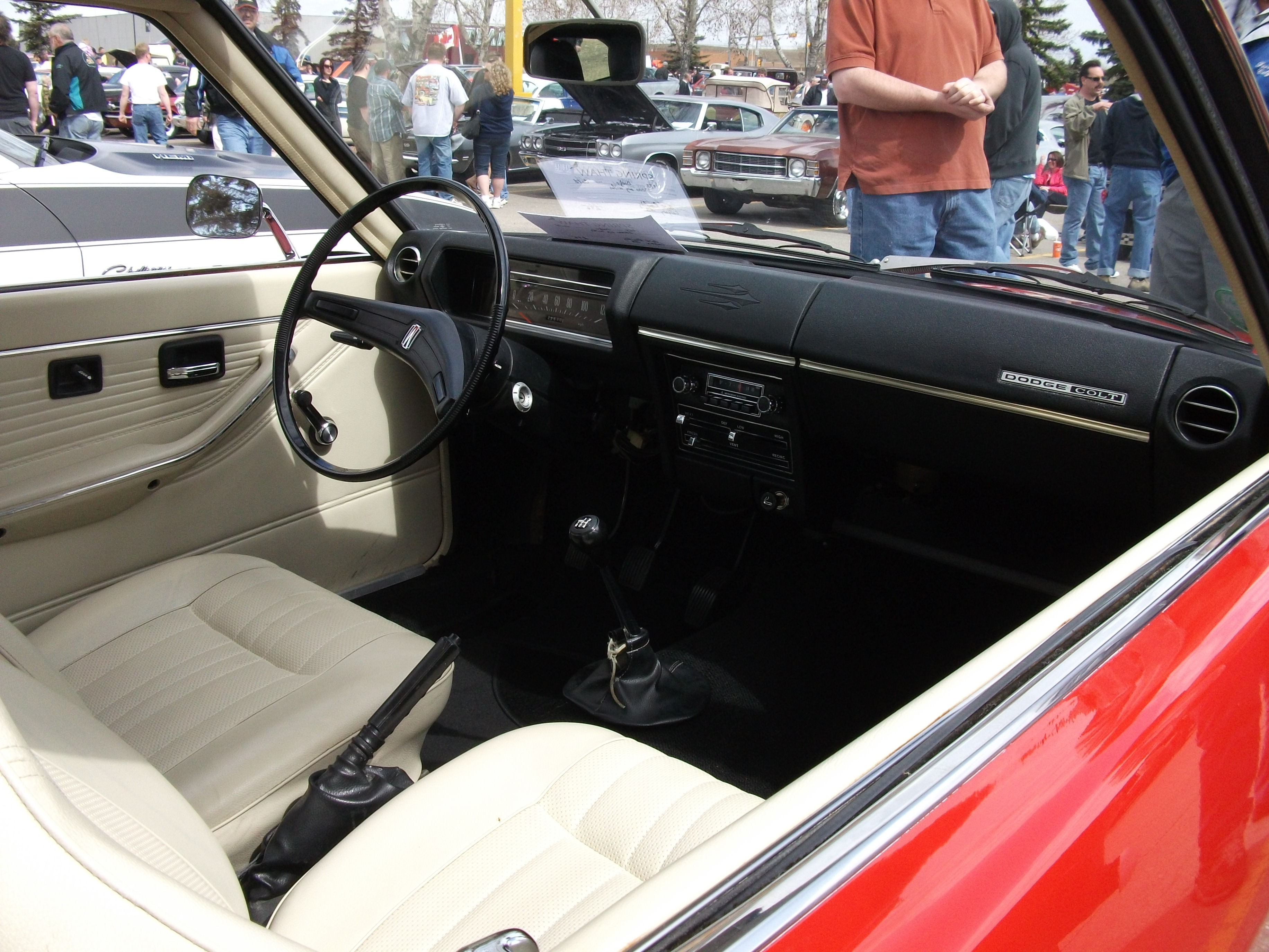 1973 Dodge Colt